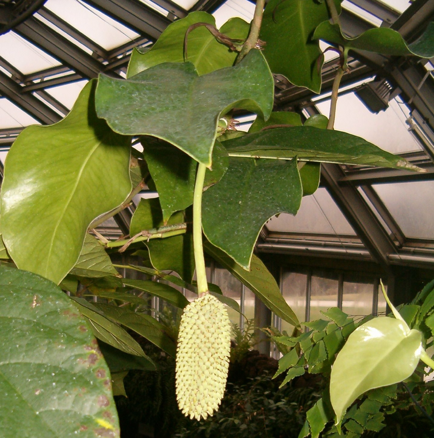 Location: Botanical Gardens Berlin Dahlem